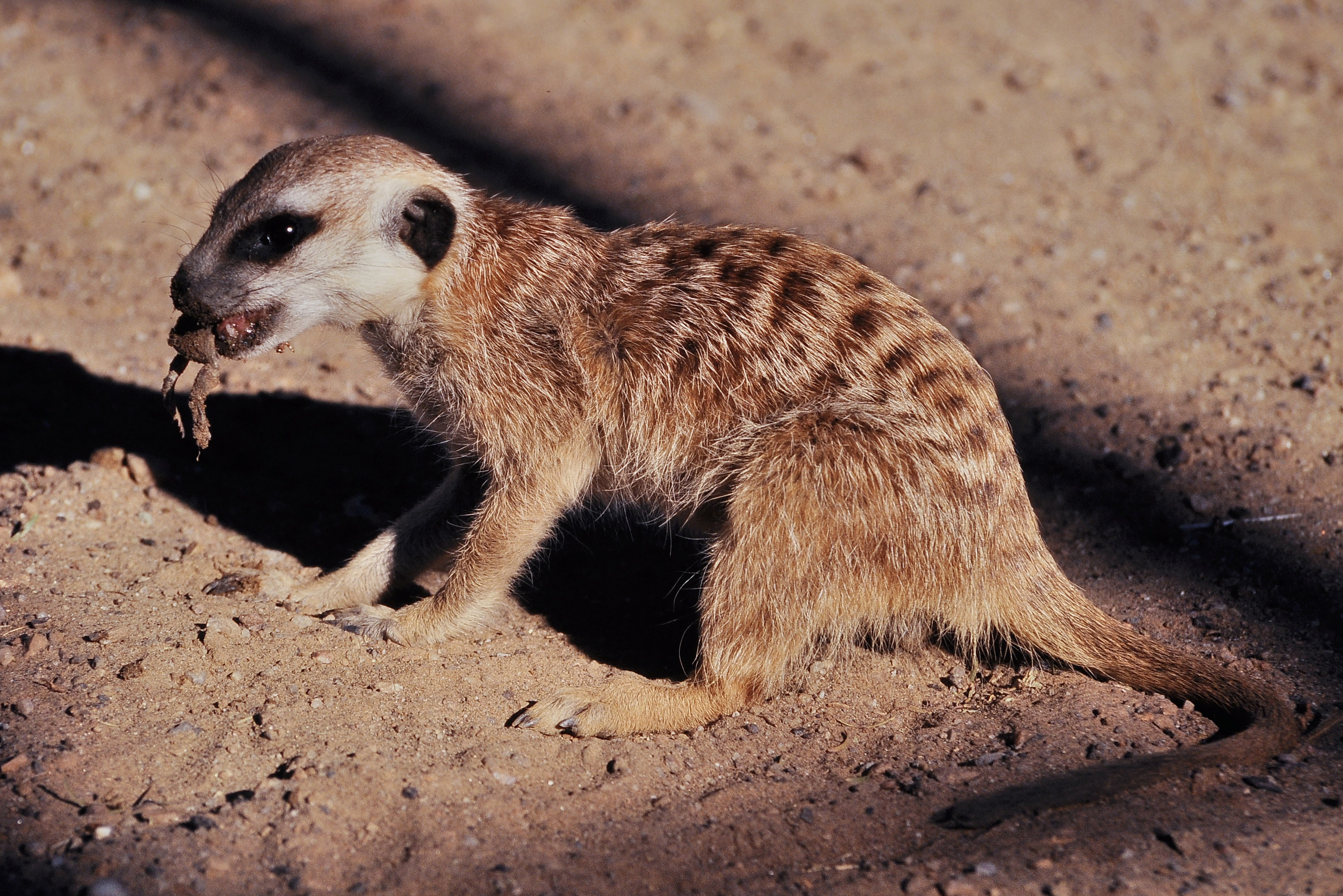 Meerkat in Namibia, eating a frog